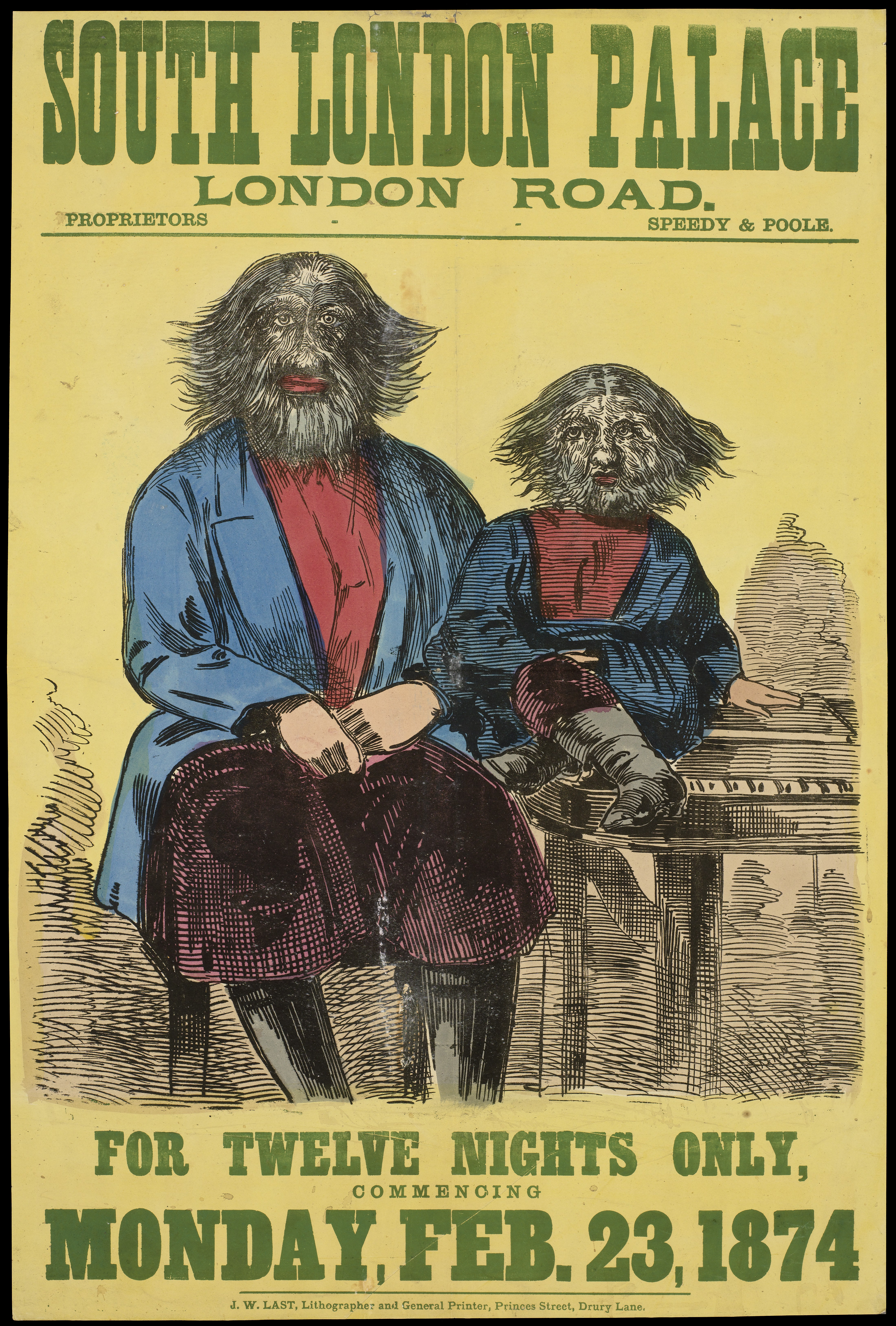 Poster: For twelve nights only, commencing Monday, Feb. 23, 1874 : South London Palace, London Road / proprietors, Speedy & Poole. General Collections Keywords: Freak Show